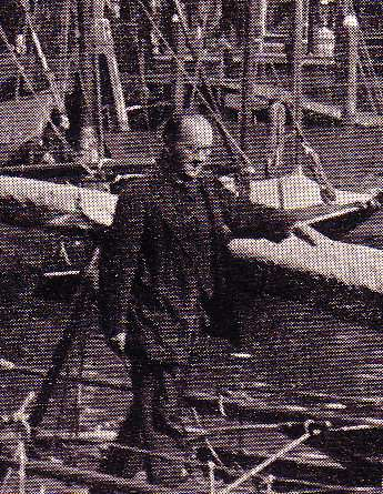 Edward Keble Chatterton from "Through Holland in the Vivette" published by J. B. Lippincott, Philadelphia 1913